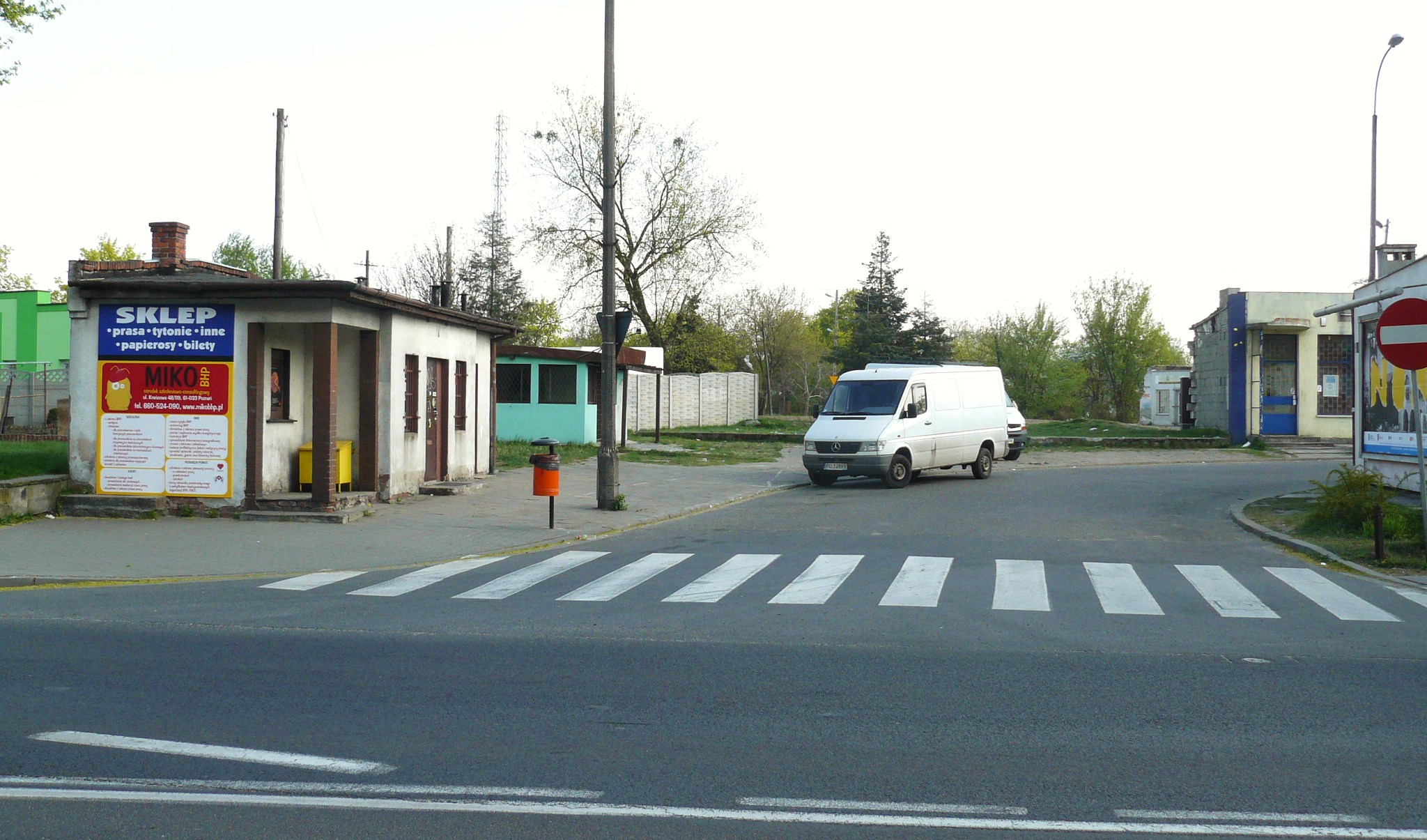 Old Balloon loop for Trolleybus in Poznan, Glowna.